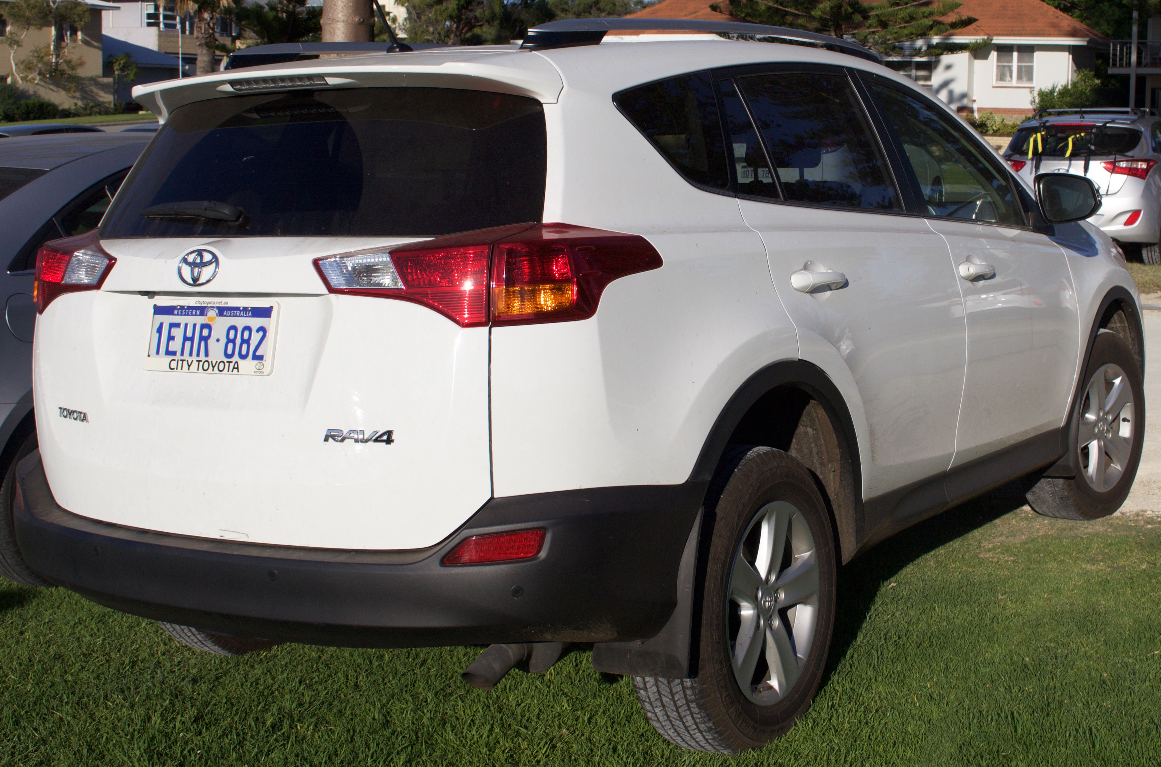 2013 Toyota RAV4 (ZSA42R) GXL wagon. Photographed in Cottesloe, Western Australia, Australia.